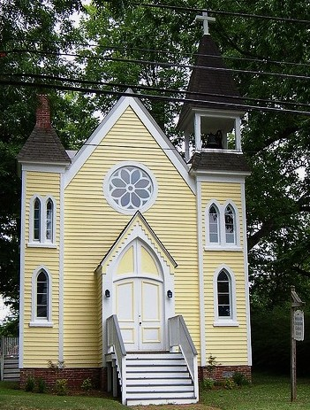 Picture taken by User:Willthacheerleader18 Church of the Immaculate Conception and the Michael Ferrall Family Cemetery of Halifax